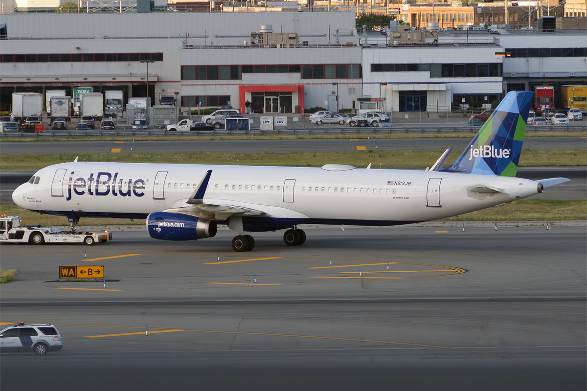 JetBlue Airways, N913JB, Airbus A321-231